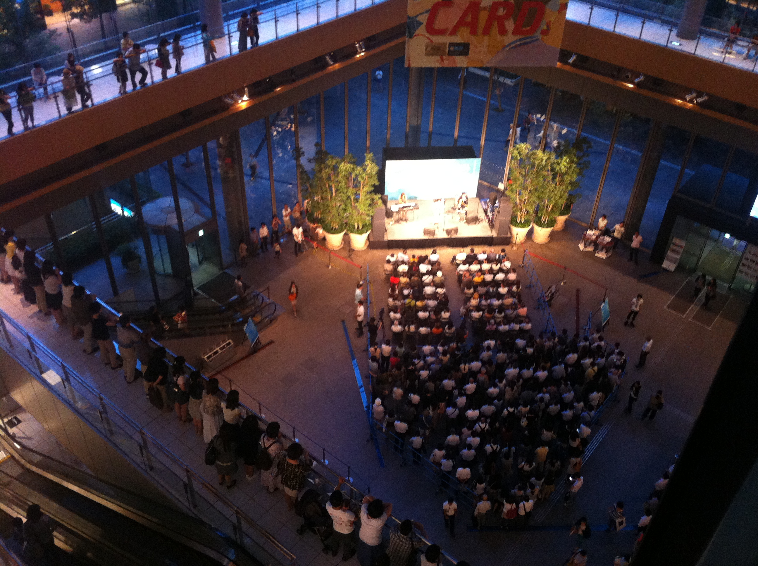 夏川りみのライブ、丸の内ビルで。(東京) Rimi Natsukawa concert, Marunouchi building (Tokyo)